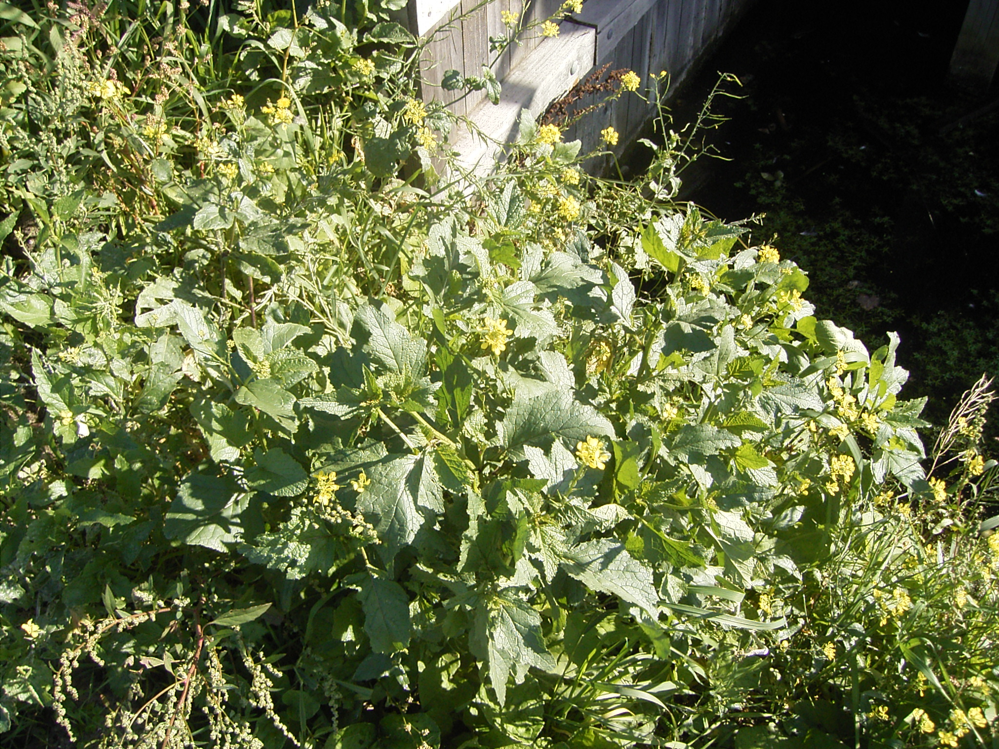 Deze foto toont de plant Herik. Ik nam de foto langs een sloot in Mariahoeve in Den Haag. This photo shows the plant sinapis arvensis. I took the photo in The Hague, Netherlands.